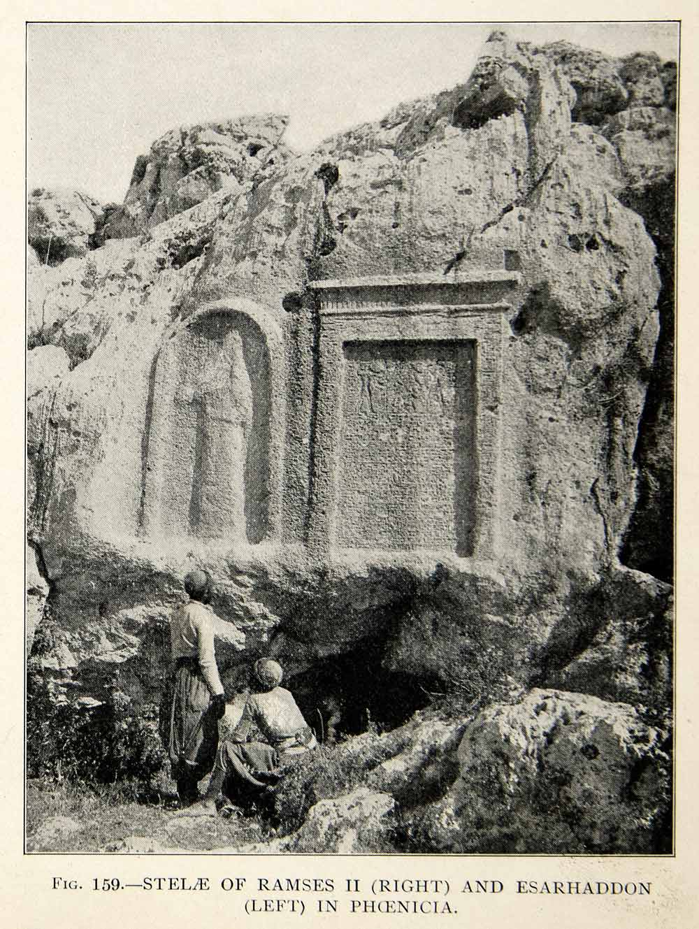 Nahr el-Kalb inscriptions of Ramesses and Esarhaddon, in Breasted